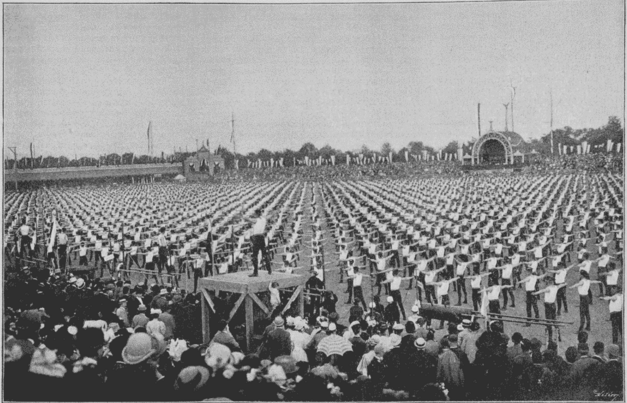 Gymnastics exercises in Prague-Letná during the third "slet" of Sokol. It took place between June 28 and July 1, 1895. Česky: Cvičení prostná v Praze na Letné během 3. sokolského sletu, svolaného od 28. června do 1. července 1895.